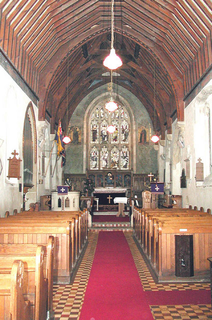 St Mary, Great Shefford. Berks - East end